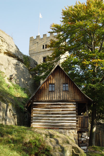 Description: Helfenburk Castle in Central Bohemia, Czech Republic Source: My own work Date: 15.10.2005